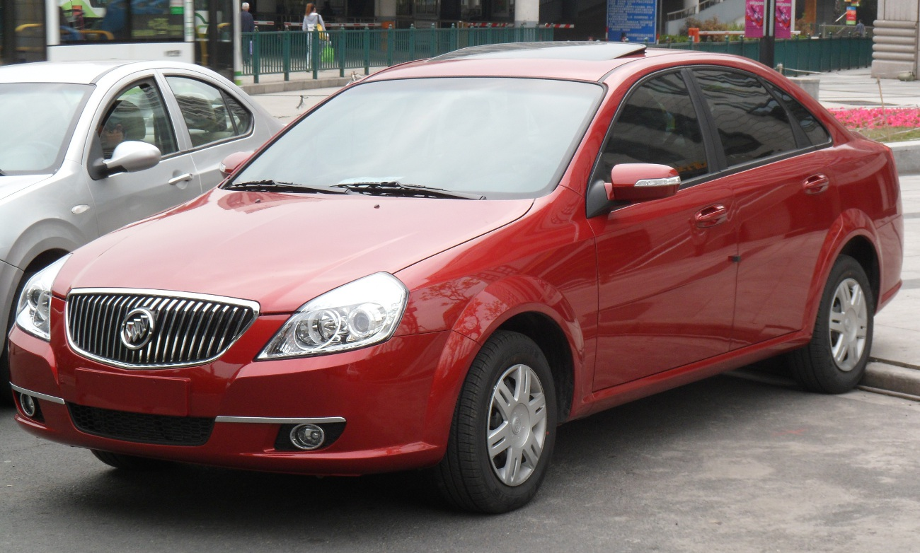 Buick Excelle photographed in Shanghai, China.